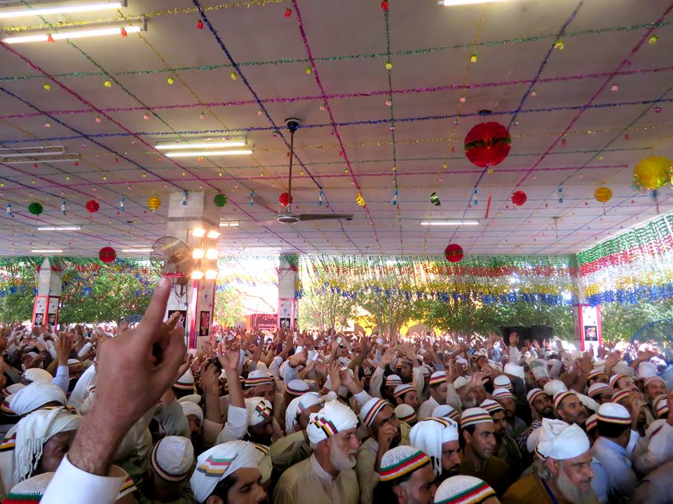 People gathered at Annual Event Jashn-e-Naqeebi 2016 and doing raqs on a qawwali during Mehfil e Samaa